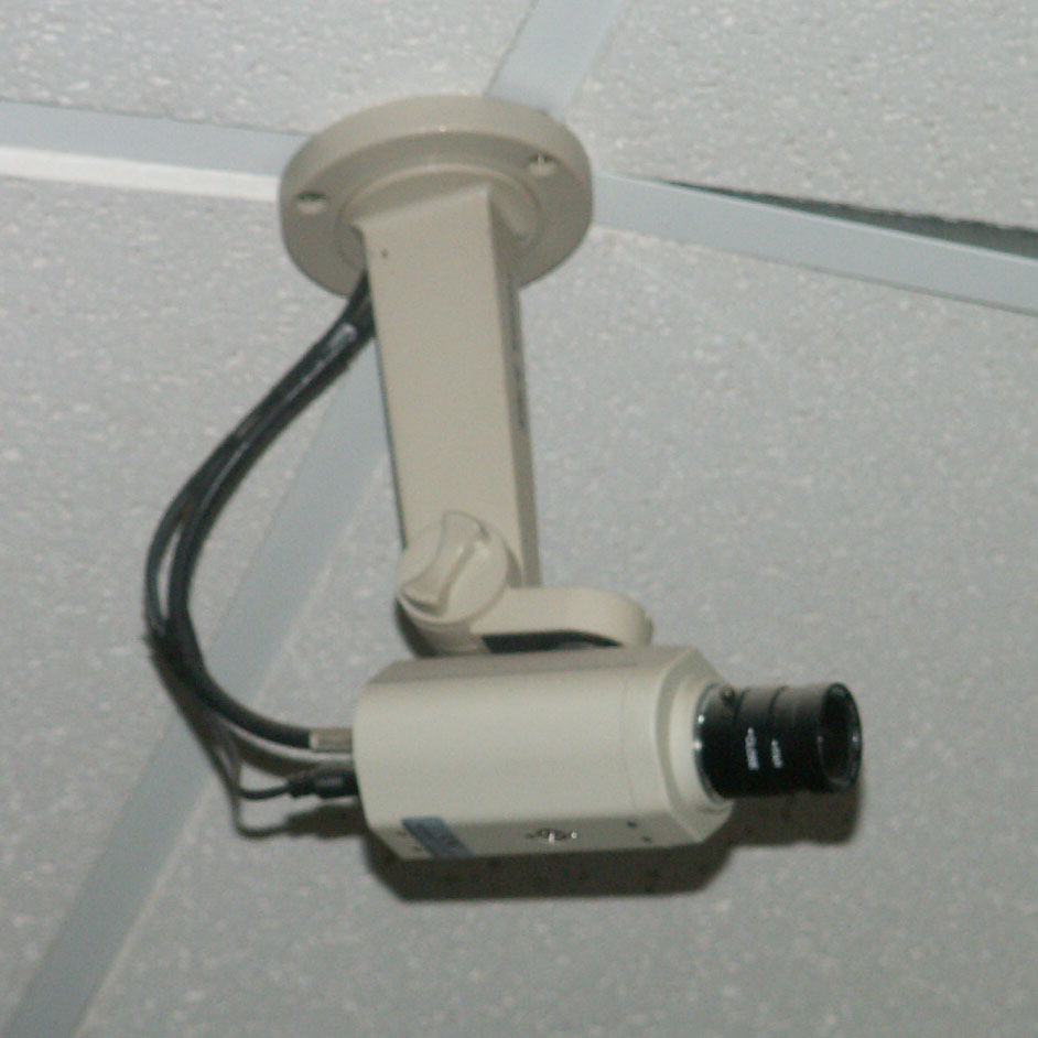 Security camera